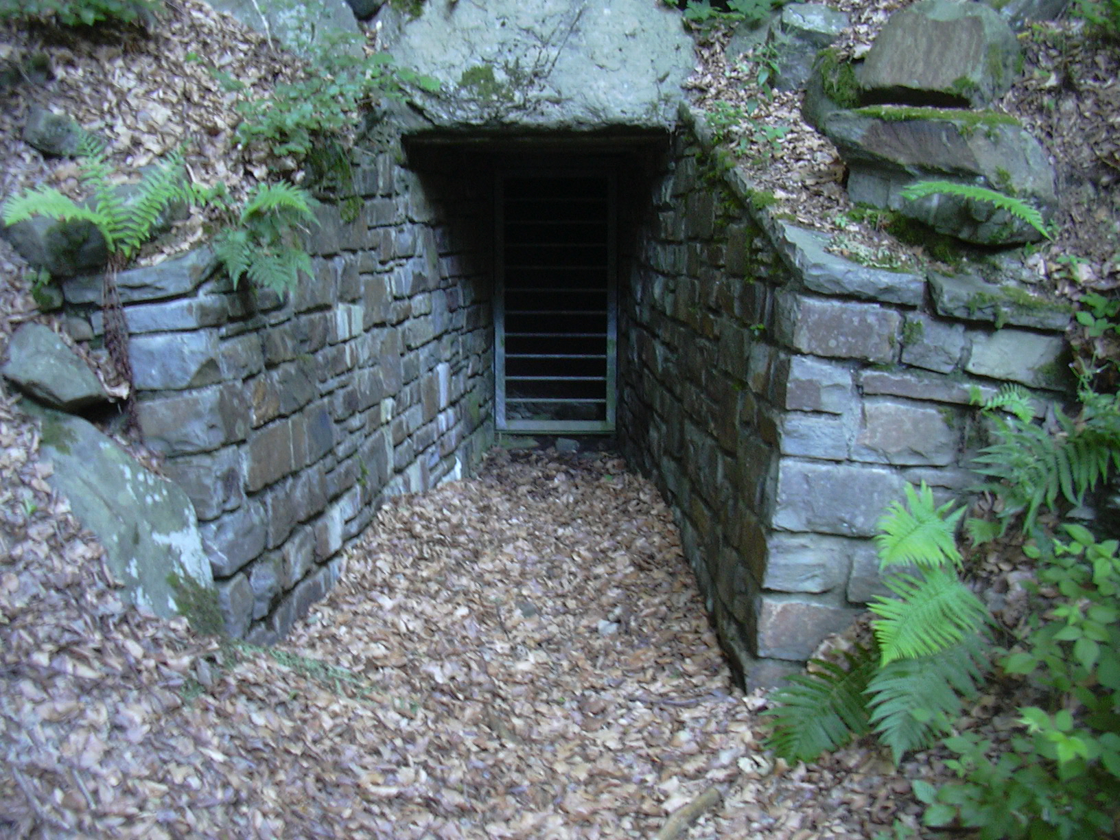 Fockenbach Valles, iron ore mine, Niederbreitbach, Westerwald/Germany